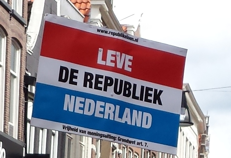 During koningsdag 2016 in Zwolle, republicans protested against the Dutch monarchy. The sign says: "Long live the Republic of the Netherlands."